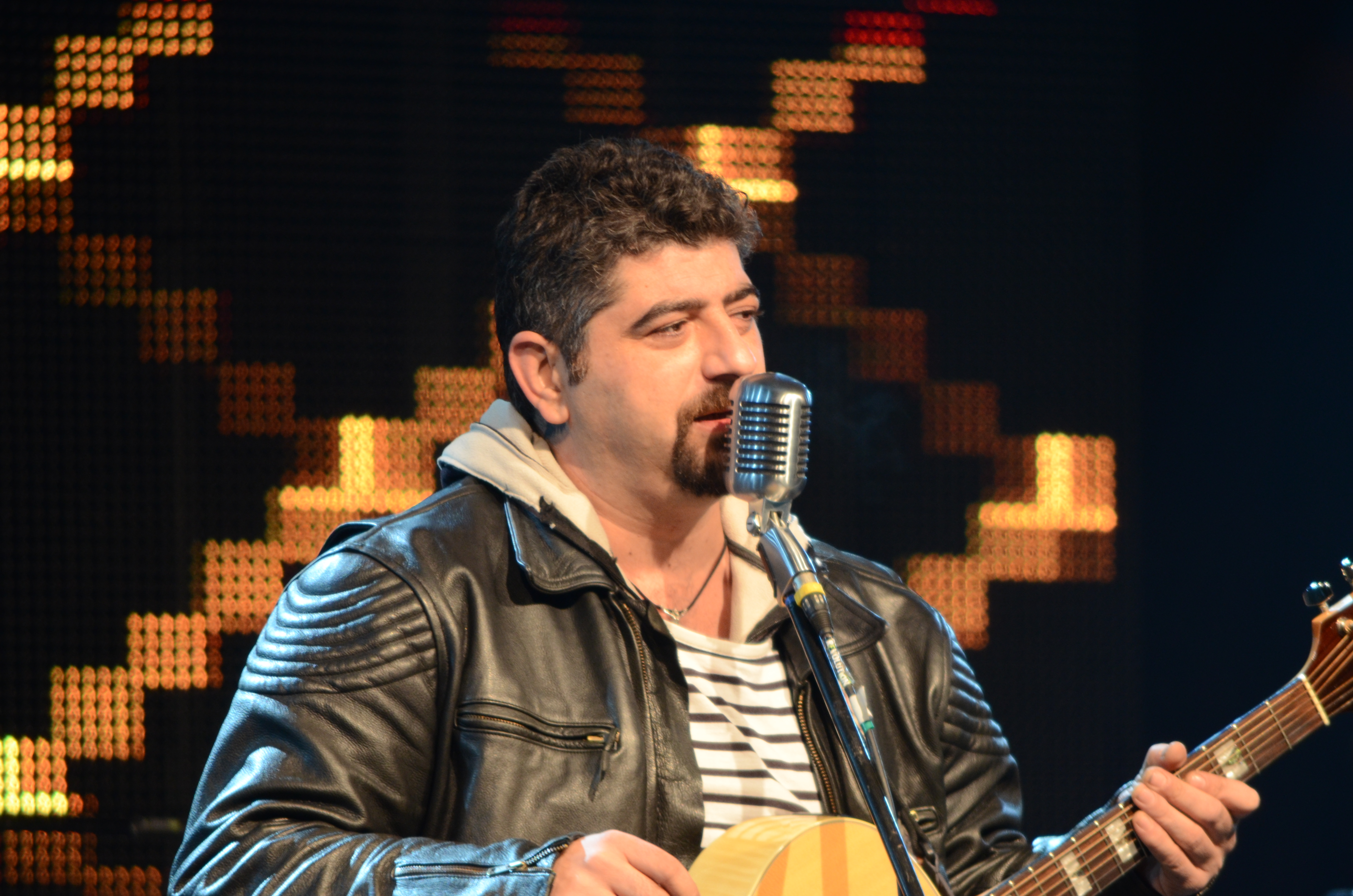 Romanian actor and singer Ovidiu Niculescu